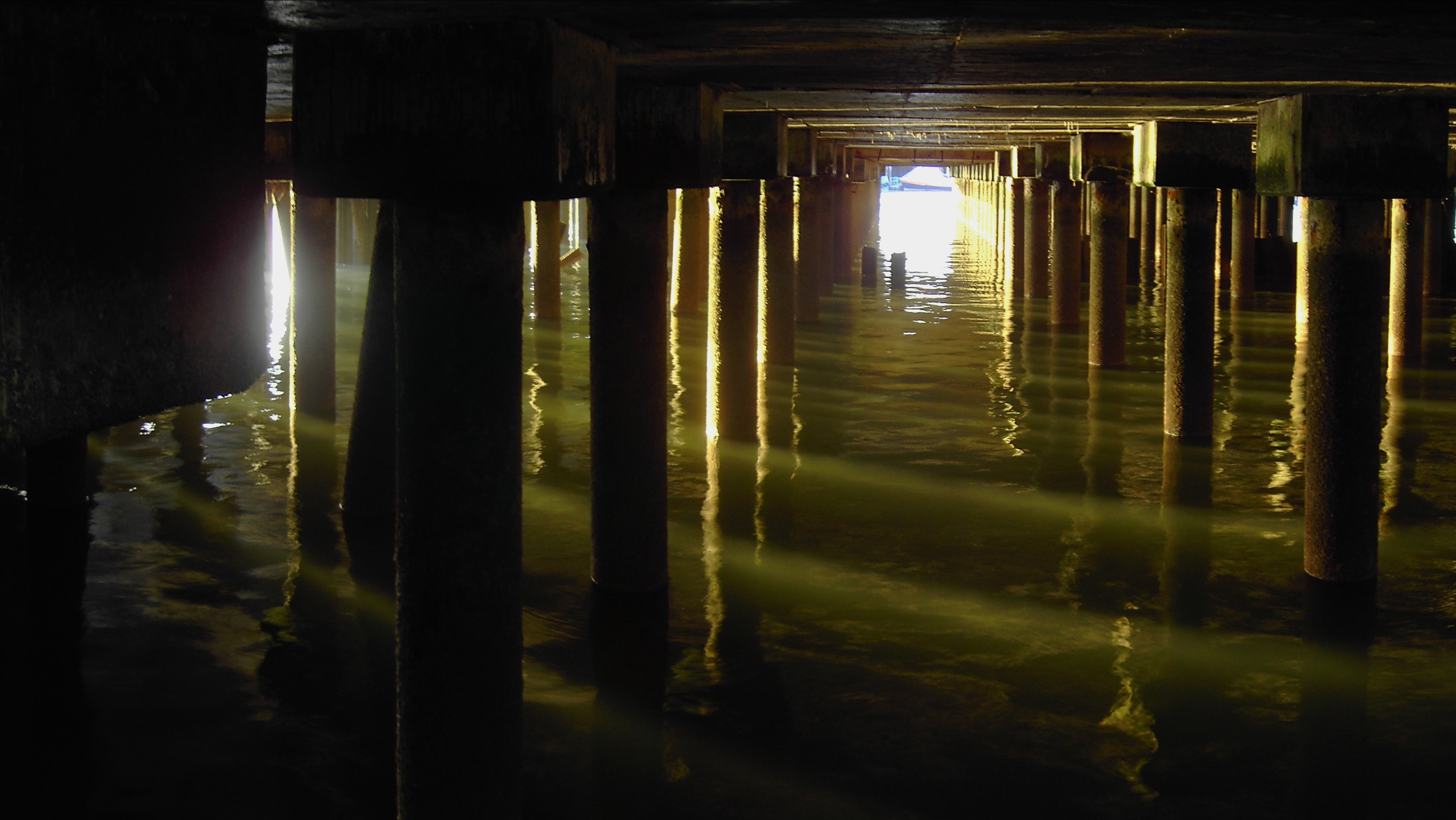 Underneath the Quay in Harwich, UK. View in interactive viewer